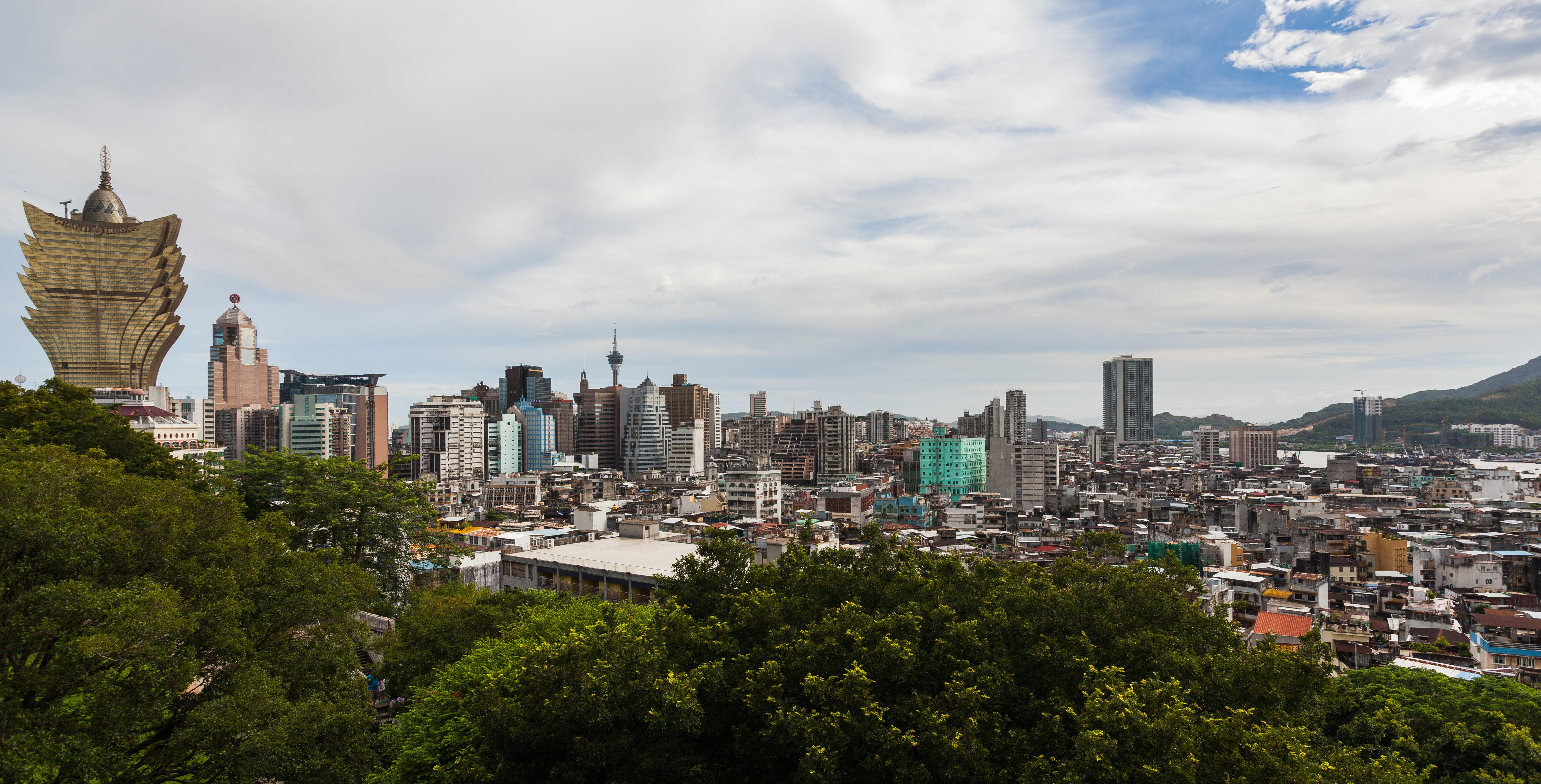 View of Macau